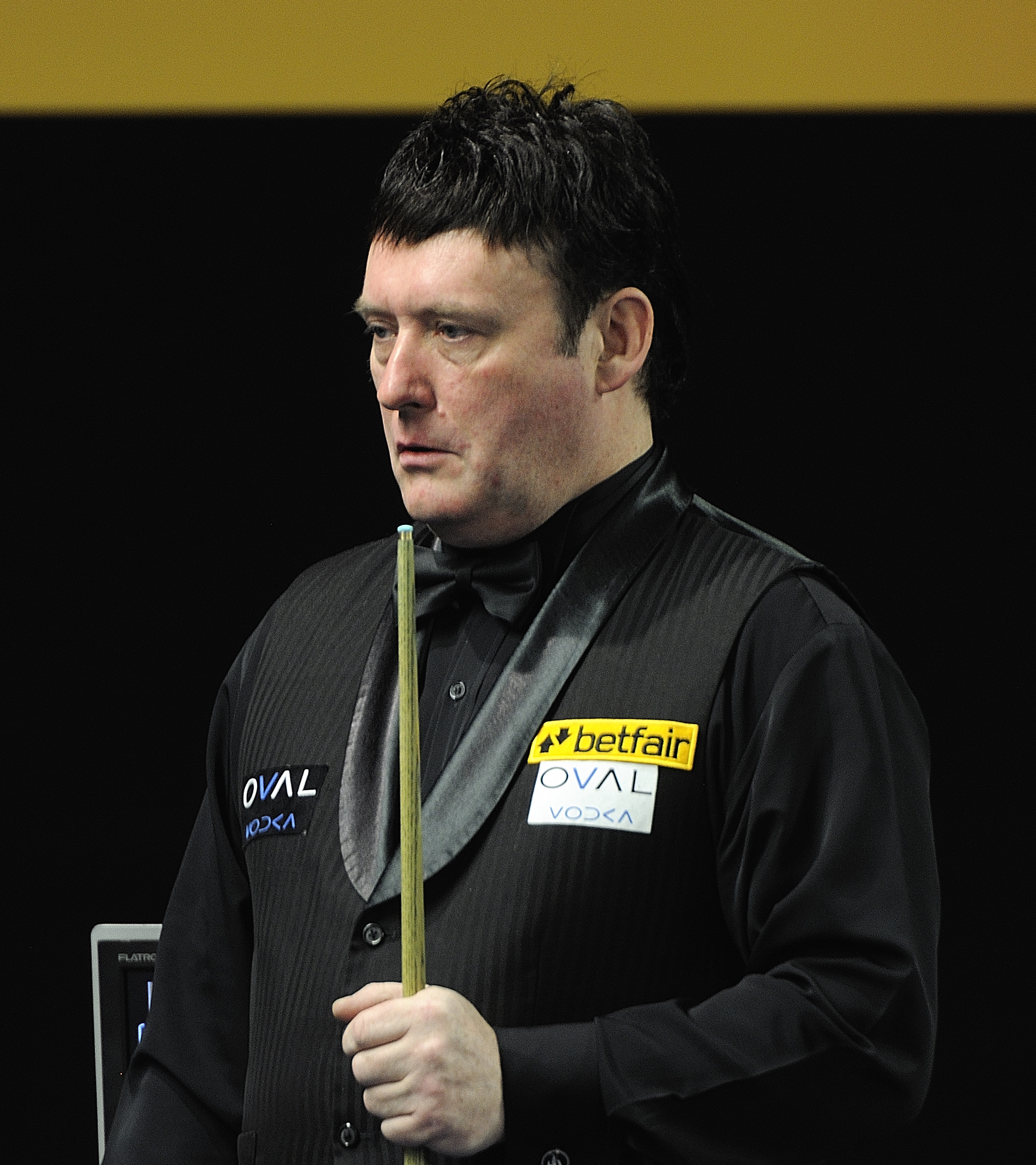 Picture taken in Berlin during the Snooker German Masters in 2013. Jimmy White.